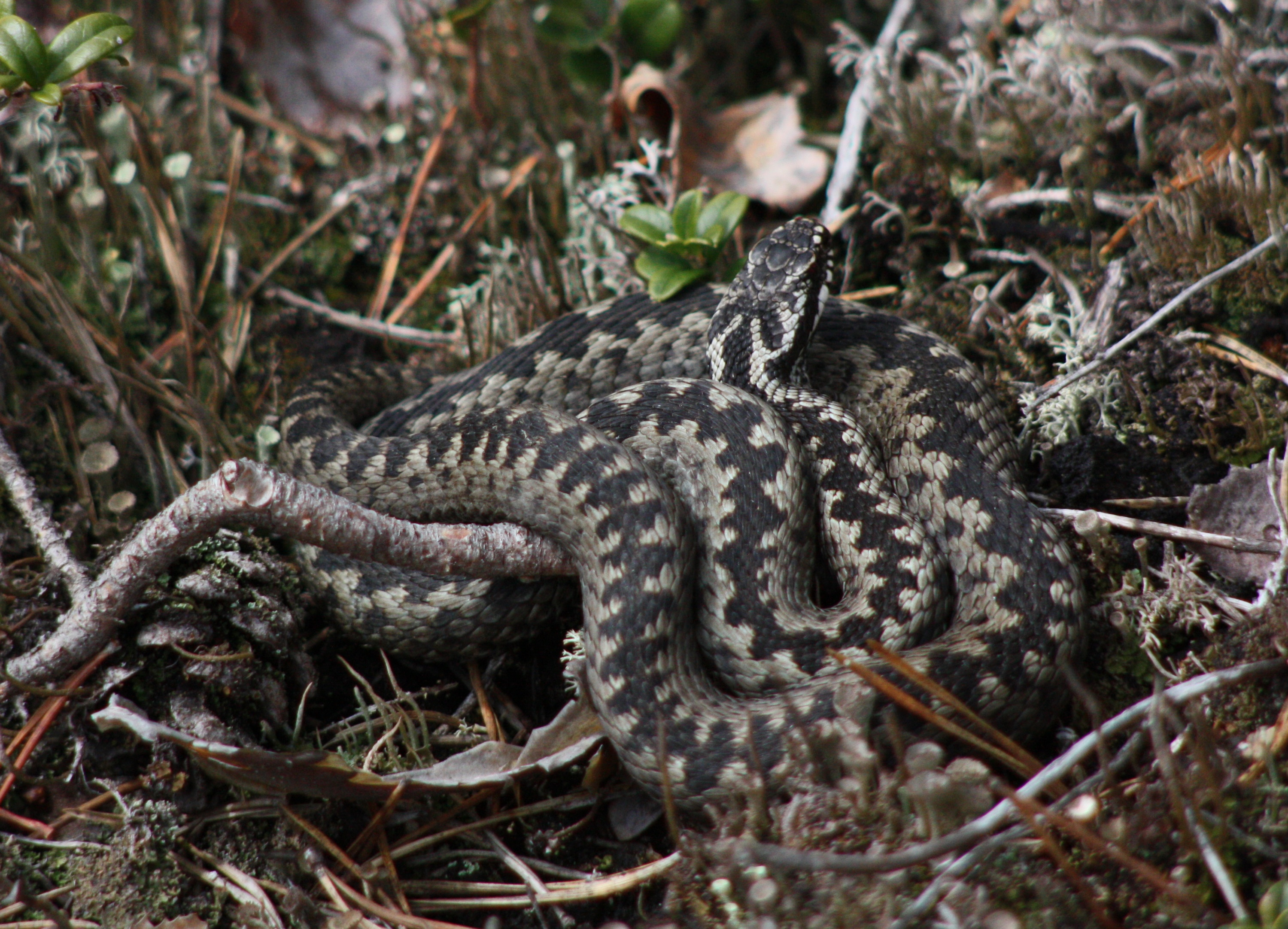 Crossed Viper (Vipera berus) in a forest glade in Varepudas in Haukipudas, Finland.